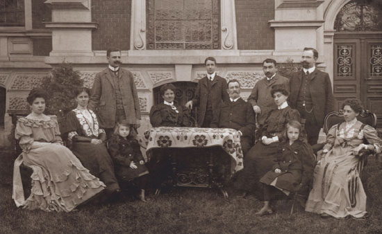 Moritz's Piesch Family (Tomaszów Mazowiecki before 1907)